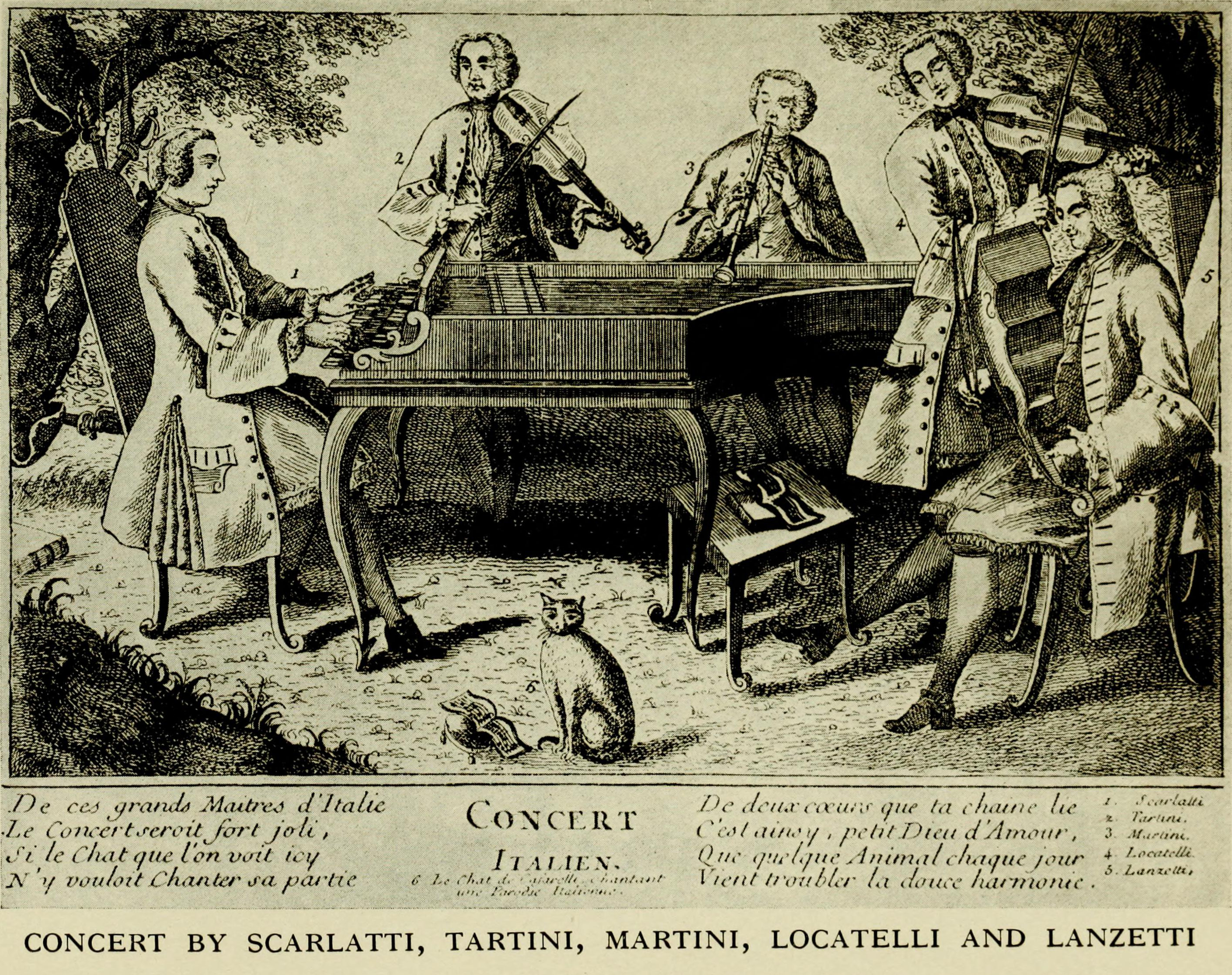 Title: The orchestra and its instruments Year: 1917 (1910s) Authors: Singleton, Esther, d. 1930 Subjects: Orchestra Musical instruments Publisher: New York : The Symphony society of New York Image caption: Concert Italien De ces grands Maîtres d'Italie le Concert seroit fort joli, si le Chat que l'on voit icy n'y vouloit Chanter sa partie. De deux cœurs que ta chaîné lie C'est ainsy, petit Dieu d'Amour, Que quelque Animal chaque jour Vient troubler la douce harmonie. 1. Scarlatti 2. Tartini 3. Martini 4. Locatelli 5. Lanzetti 6. Le Chat de Cafarelli chantant une Parodie Italienne. CONCERT BY SCARLATTI, TARTINI, MARTINI, LOCATELLI AND LANZETTI